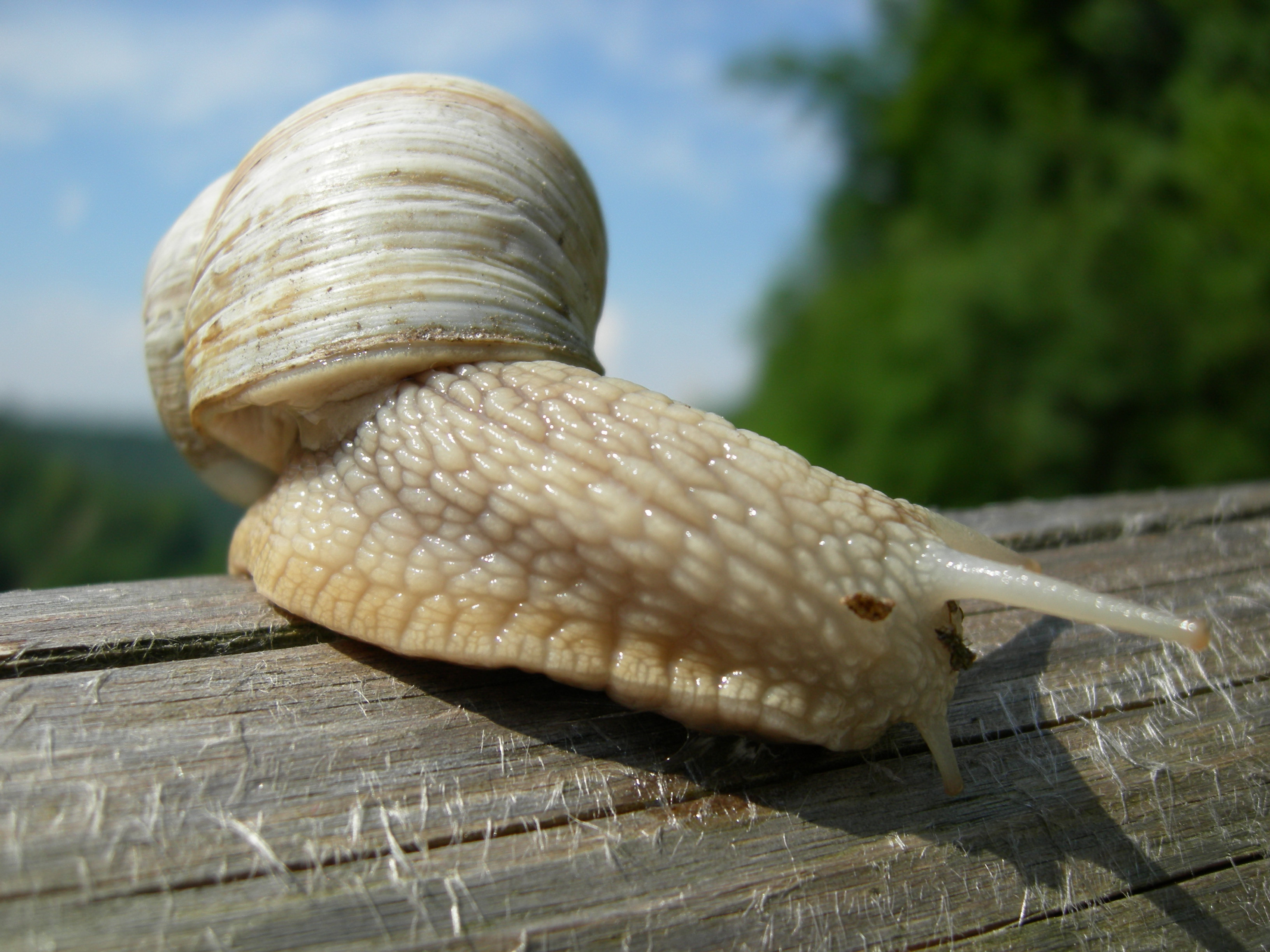 A roman snail (Helix pomatia). Slovenia.